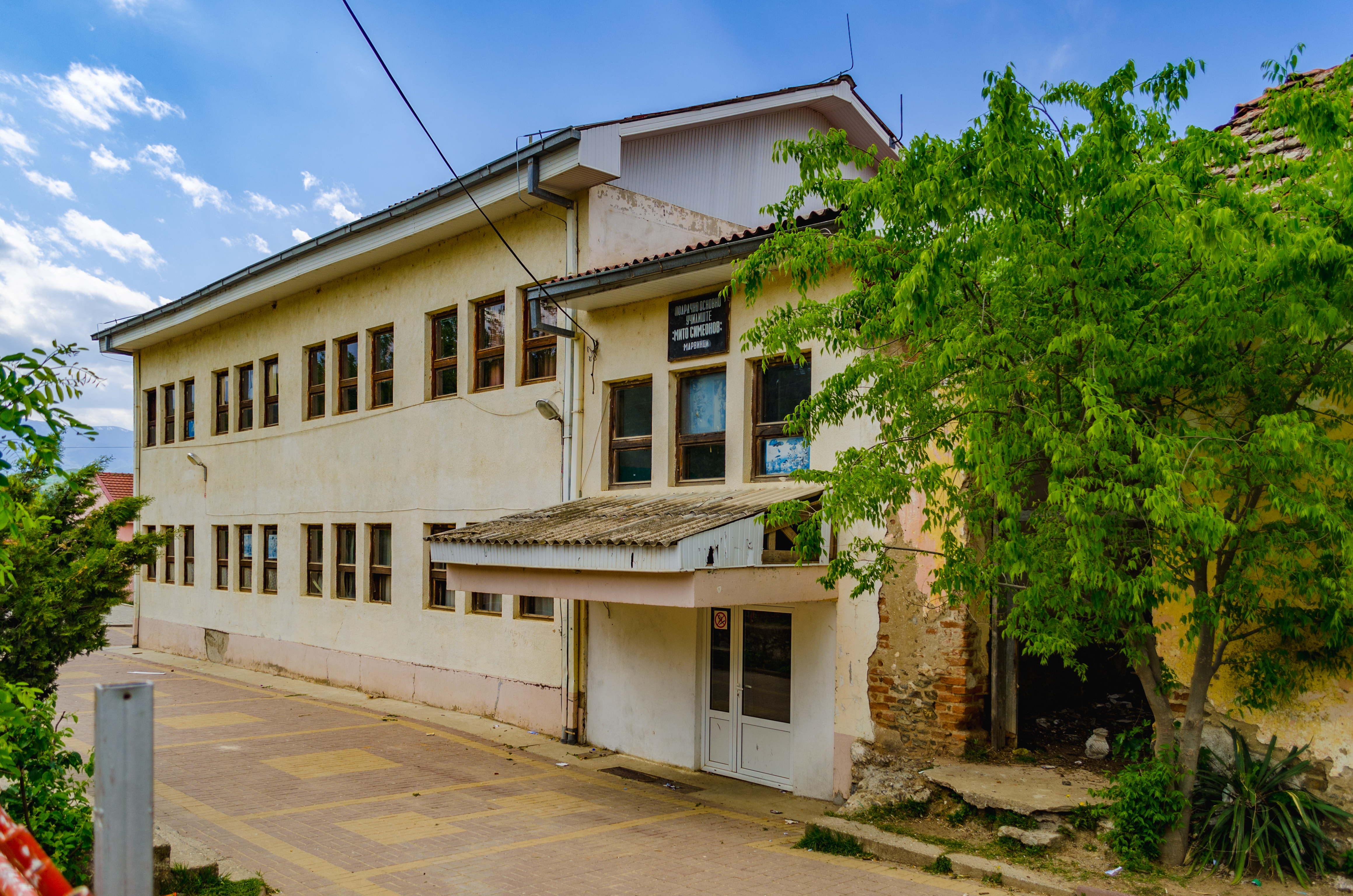 Primary school in the village Marvinci